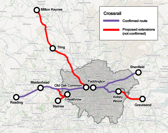 Map of proposed extensions to the planned Crossrail network in London, UK, as outlined in the 2011 Rail Utilisation Strategy document of 2011 (p.153). Extensions are proposed to Reading, Tring/Milton Keynes, Gravesend and Staines with a spur from Heathrow to the Great Western Line which has trains to Birmingham, Bristol, South Wales as well as Somerset, Devon and Cornwall This map may be incomplete, and may contain errors. Don't rely solely on it for navigation.